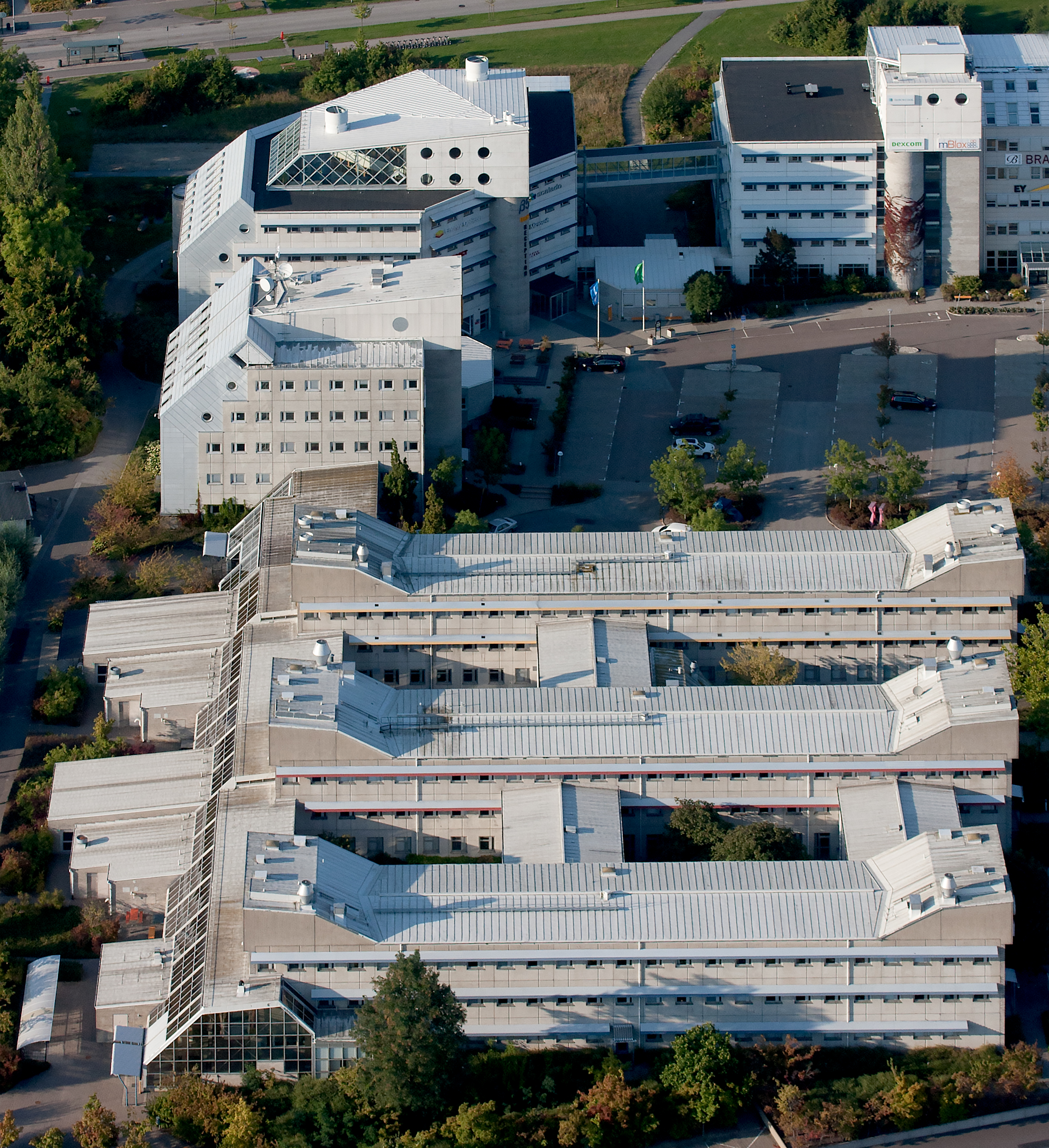 Beta house at Ideon Science Park in Lund, Sweden.